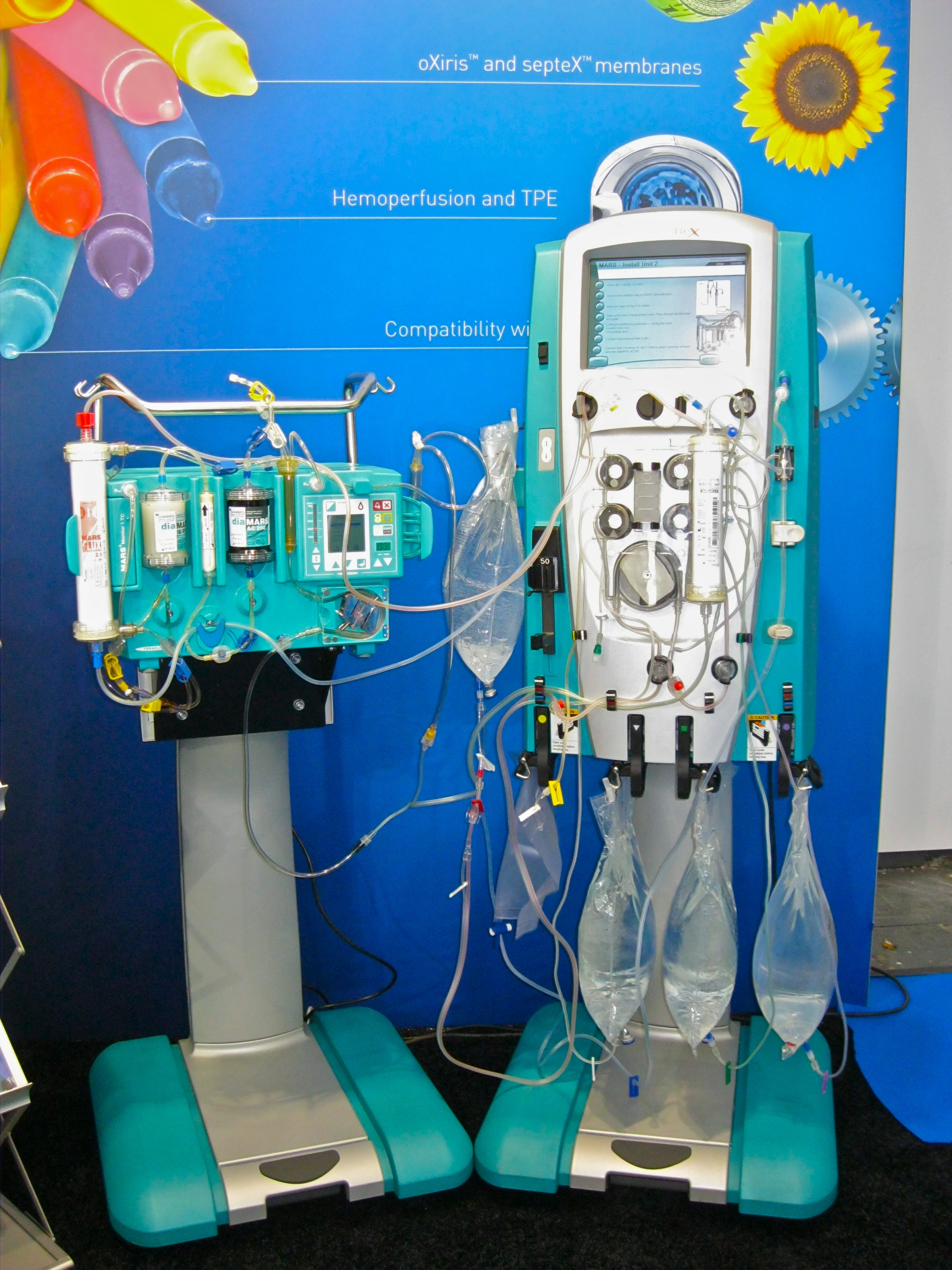 Combined MARS and PrismaFlex monitors